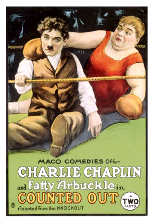 Poster for Tango Tangles (1914).